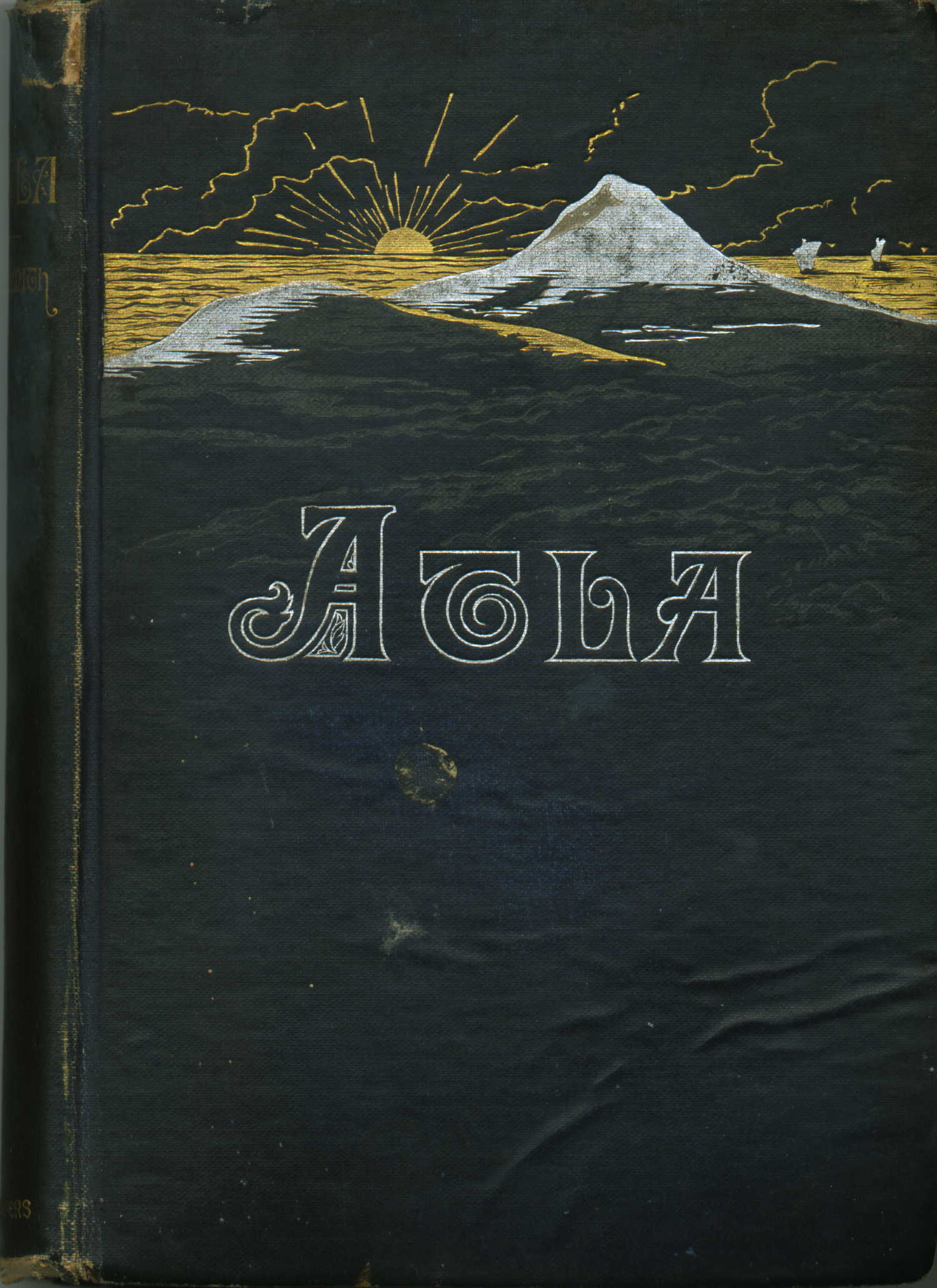 This is the cover artwork of the novel called Atla - A Story of the lost island, by Ann Eliza Smith (Brainerd), published in 1886.